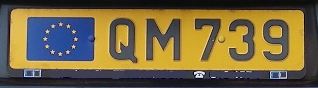 Luxembourg vehicle registration plate